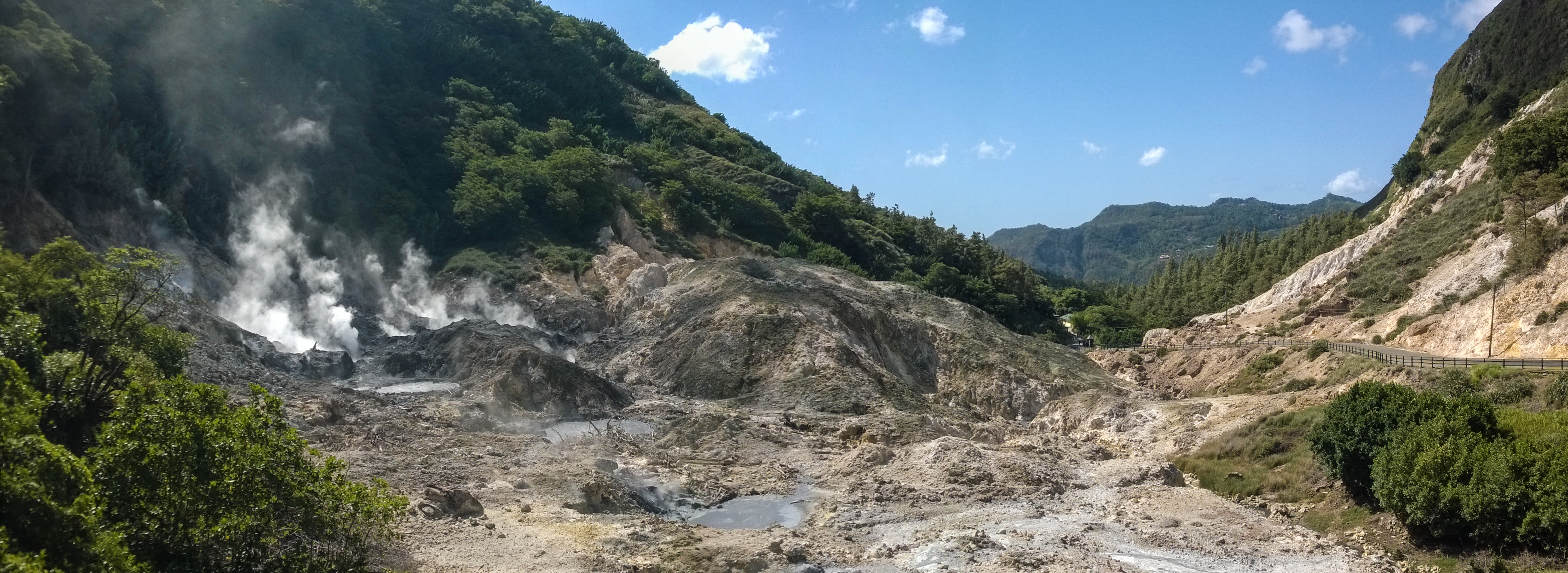 Sulphur Springs geothermal area near Soufrière, Saint Lucia showing hot pools and steaming fumaroles - April, 2017.